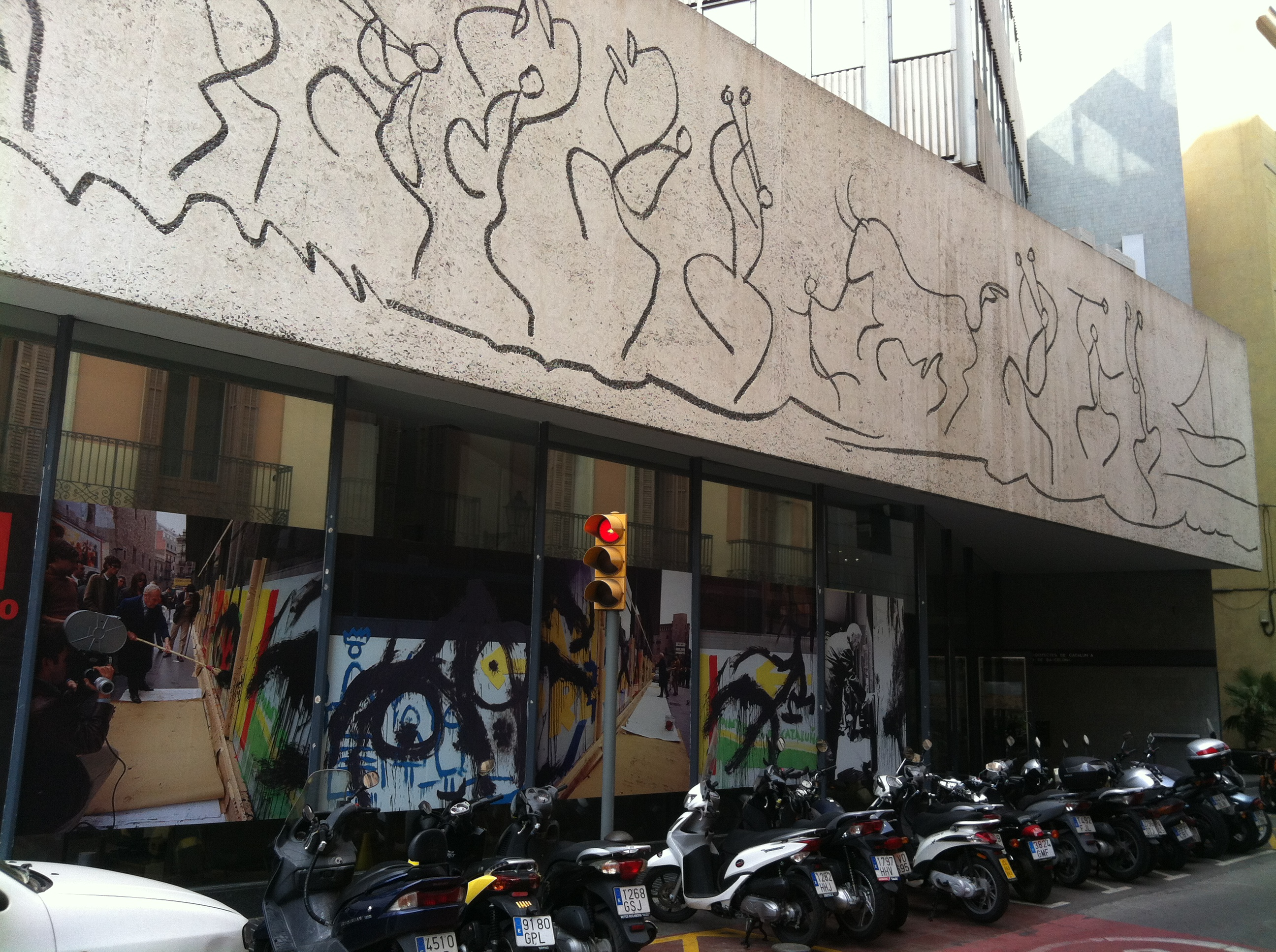 Miró otro Originally spelled backwards Orim, was a retrospective of the Catalan painter's Joan Miró work organized by Official College of Architects of Catalonia (COAC) at its headquarters in Barcelona on 1969. One of the most important and transgressors of this exhibit was the art intervention made by the artist and collaborators before the opening of the exhibition and destroyed by him and collaborators later.On 2012, there was a memorial exhibit on the same space. Pictures are taken from a Public square in Barcelona, where there is Freedom of Panorama